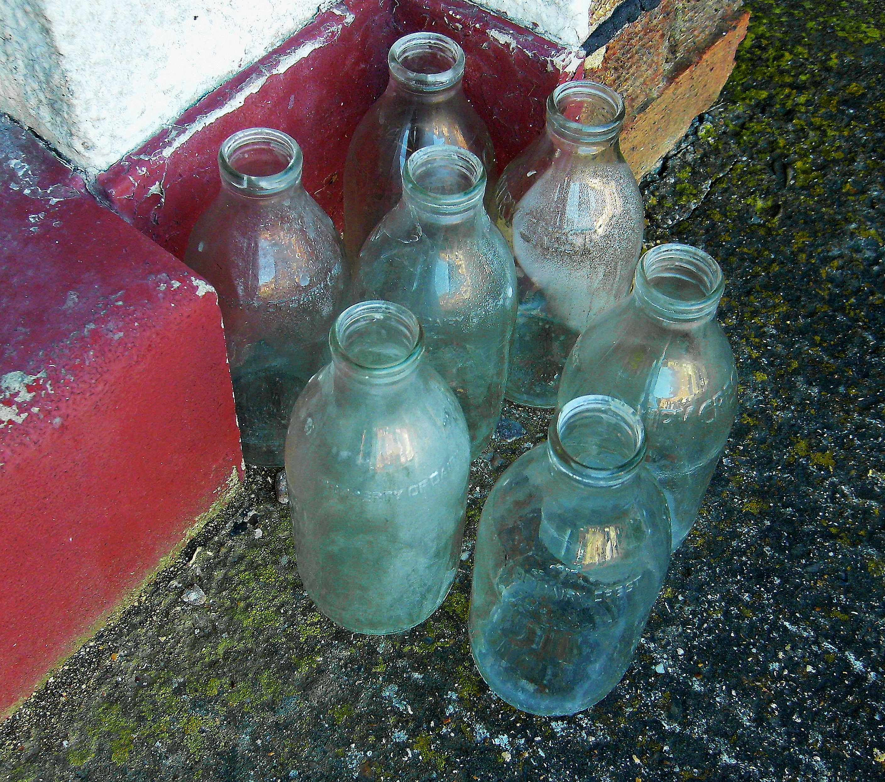 Seven modern Dairy Crest milk bottles.